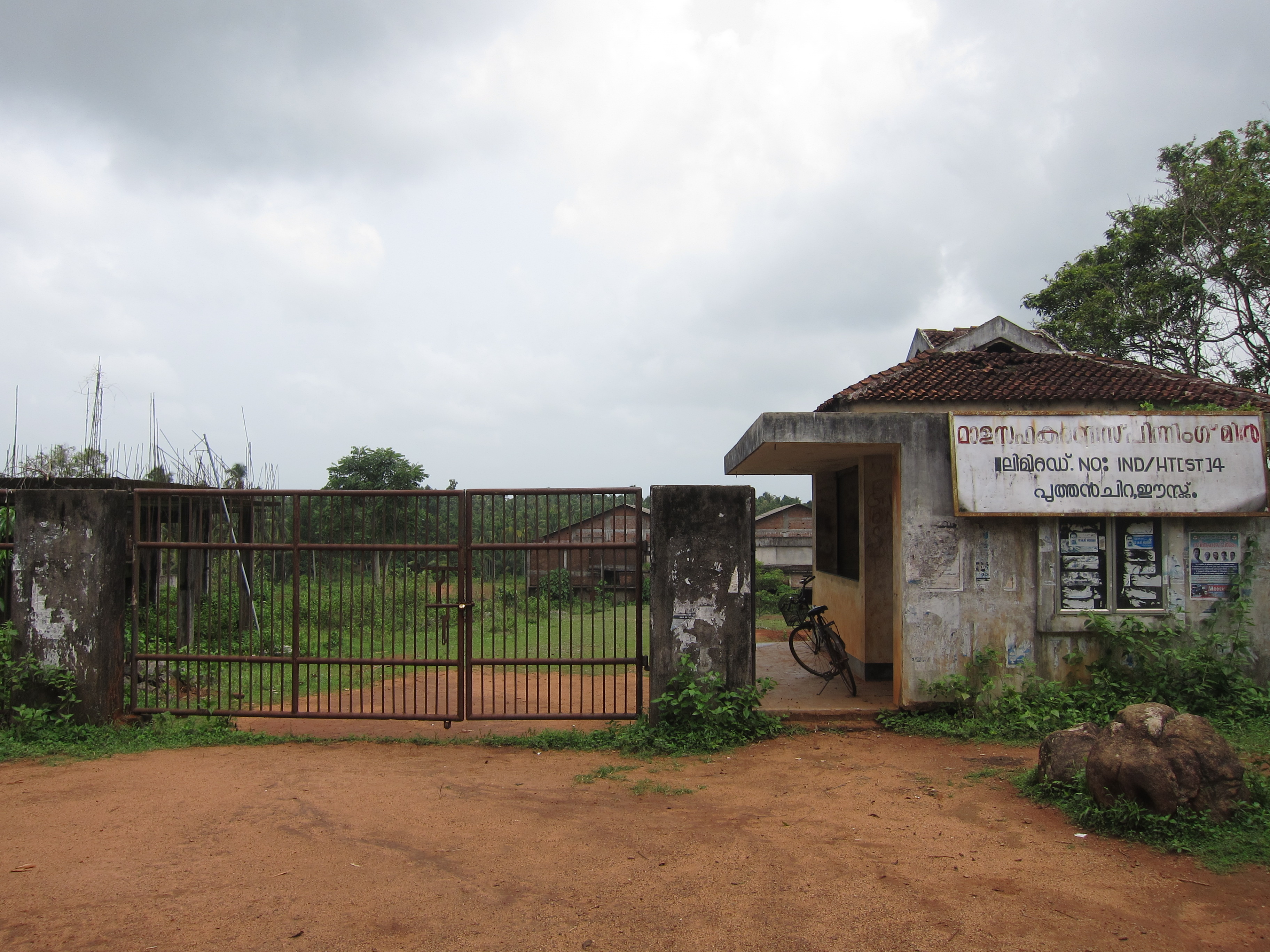 Mala Cooperative Spinning Mills... മാള സഹകരണ സ്പിന്നിംഗ് മിൽസ്... പുത്തൻചിറ പഞ്ചായത്തിലാണ് സ്ഥാപിച്ചിരിക്കുന്നത്...